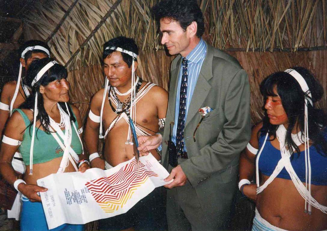 Professor Meyer and the amazon indians in 2007